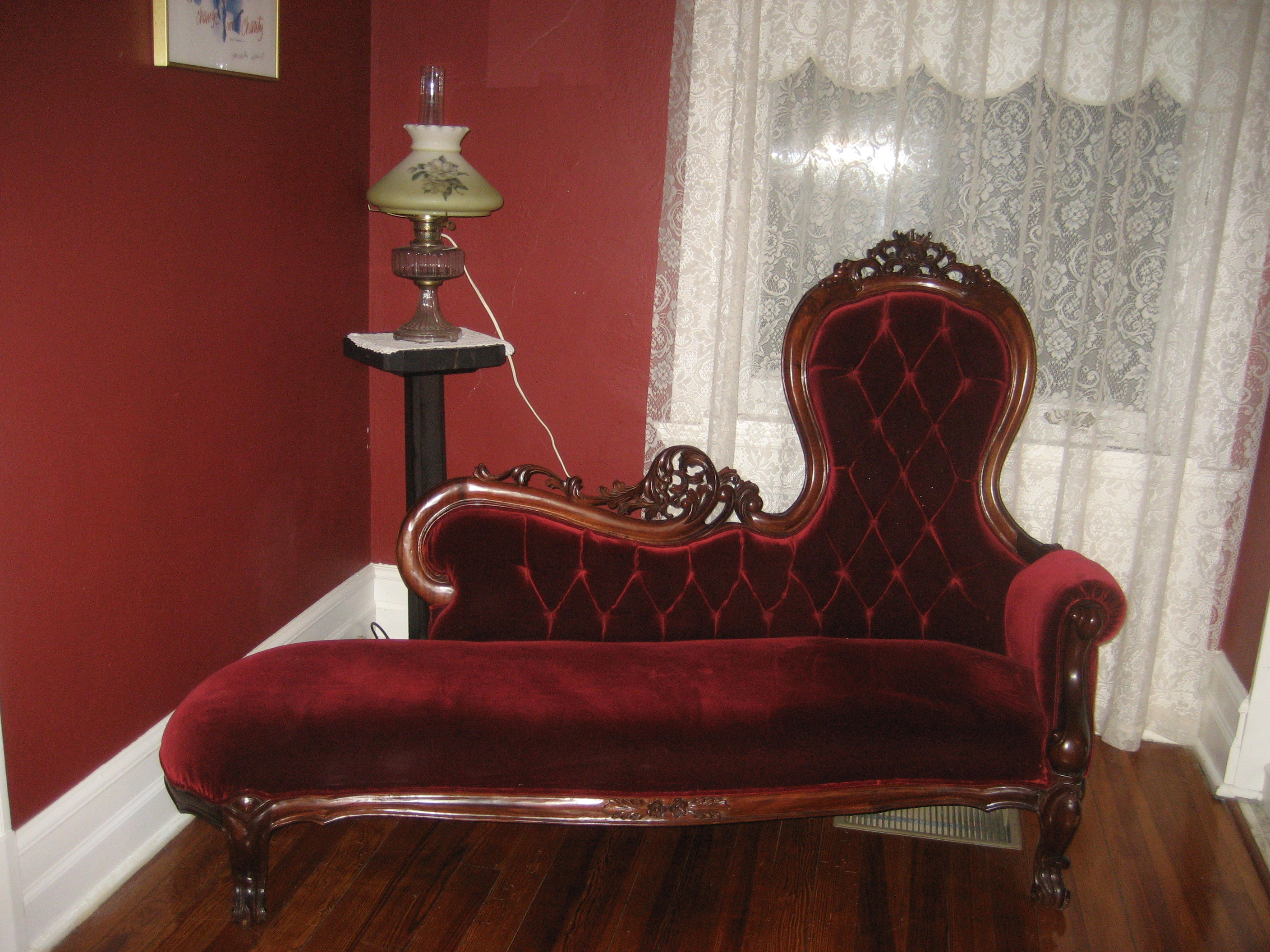 Fainting couch, Bernheimer House, Port Gibson, Mississippi.